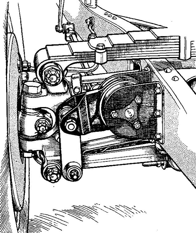 Alvis front suspension (Autocar Handbook, 13th ed, 1935).jpg